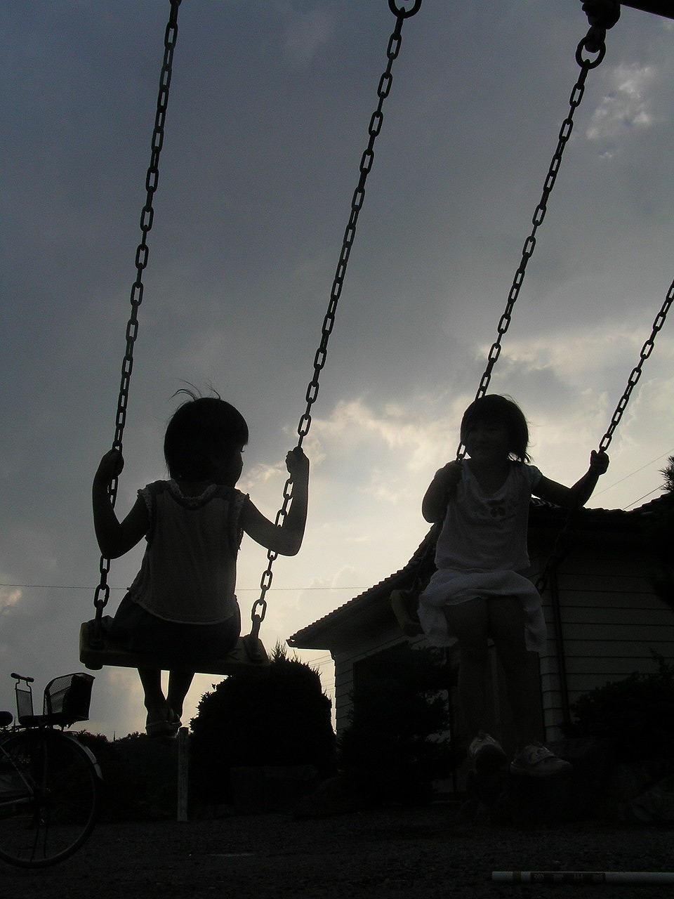 Two girls who get on swing in evening